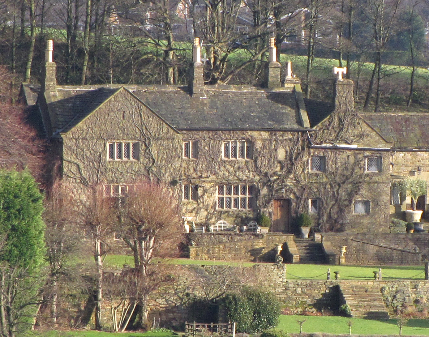 Fulwood Hall in Fulwood, Sheffield, England. This Grade II Listed Building dates originally from the 15th century but was almost totally rebuilt in 1650. It is seen here from the SW across the Mayfield valley from Douse Croft Lane.